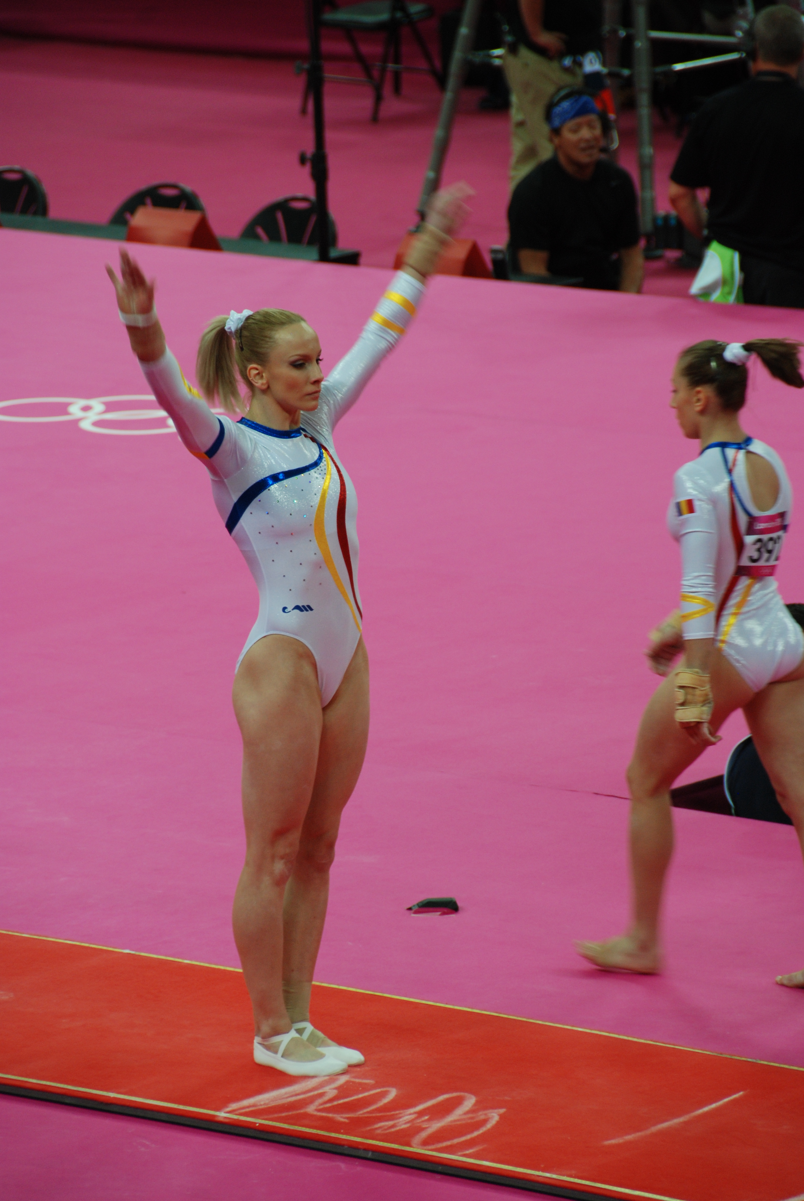 Women gymnastics, Olympics 2012, Sandra Izbaşa